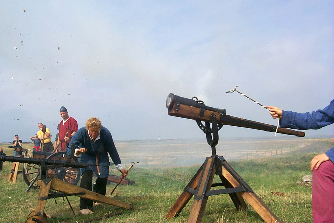 Firing some reconstructed medieval cannon.